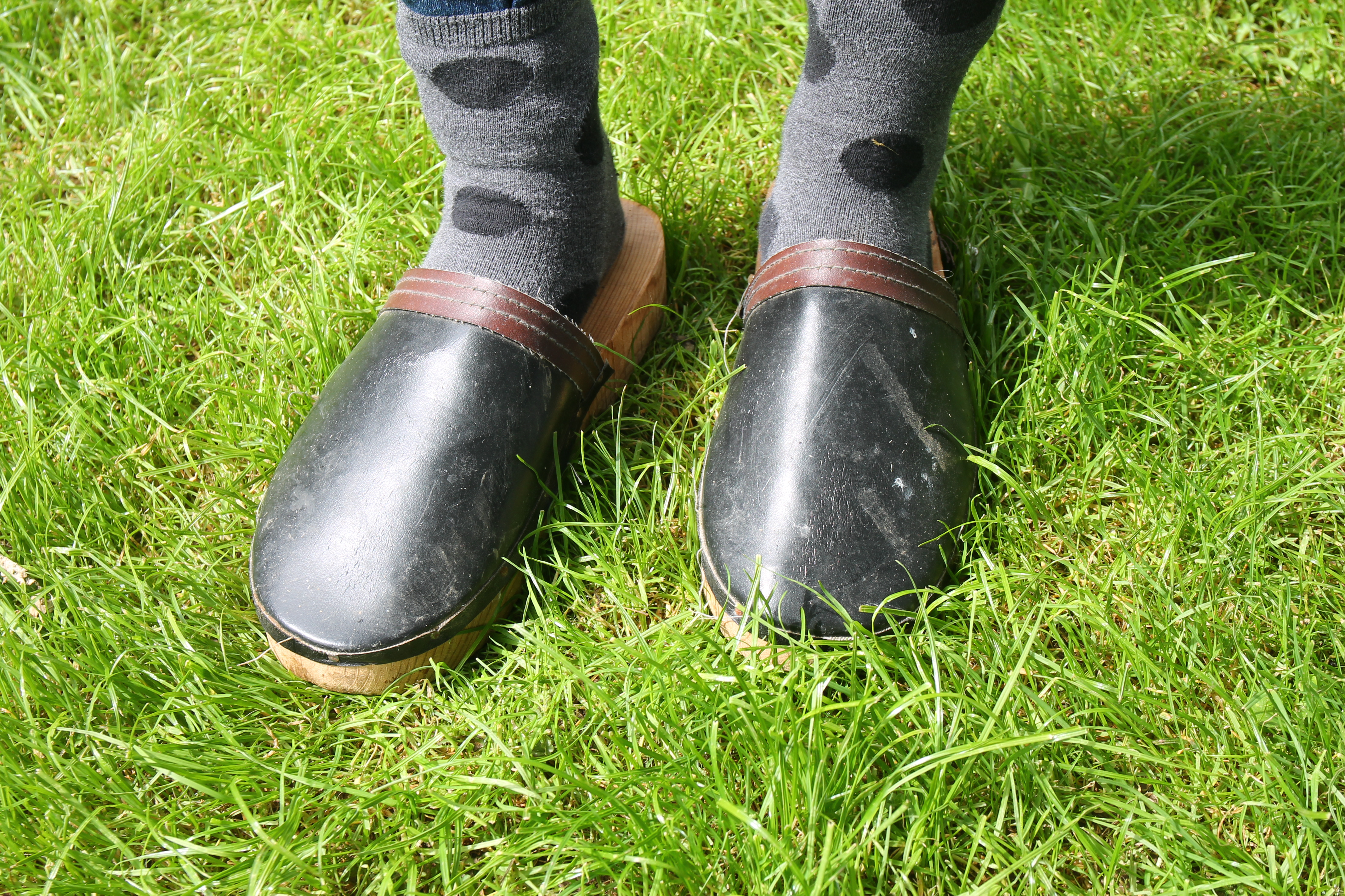 Mejšle, traditional shoes of Bohemian Forest